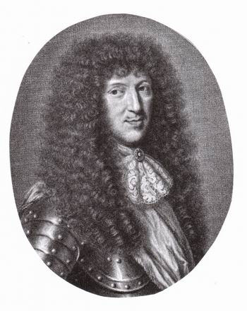 Maximilian (1638-1705) child of Maximilian I (1573-1651)